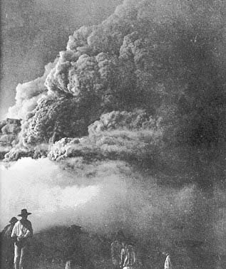 Ash cloud above Mt. Pelee, August 30, 1902.